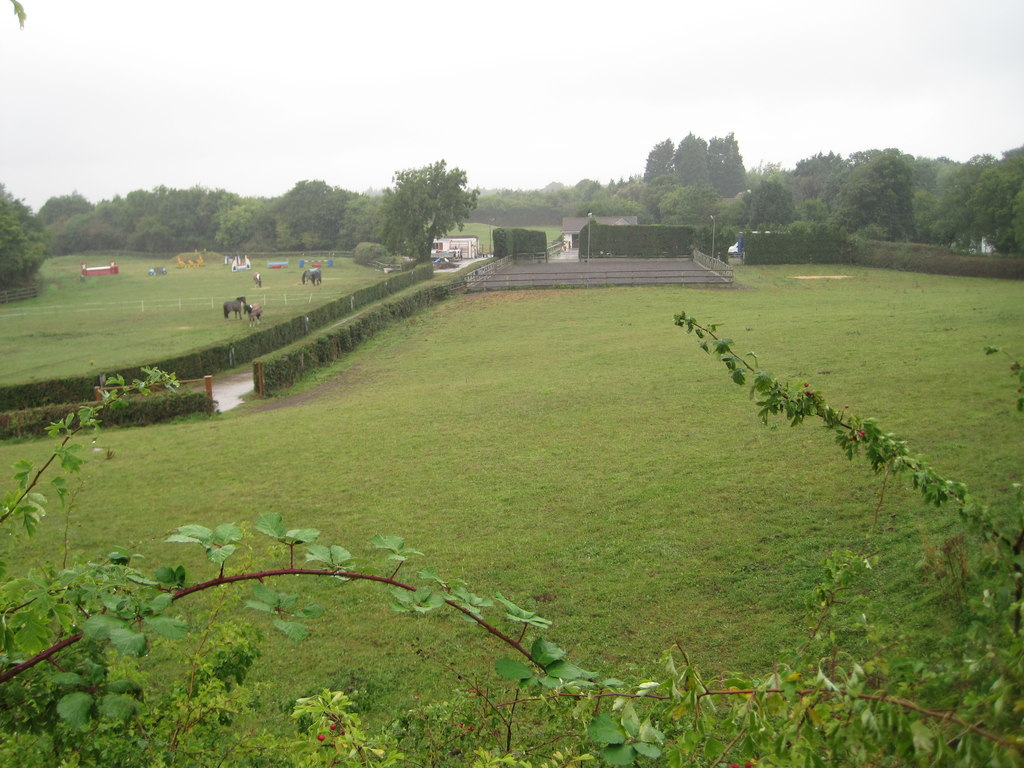 Cross Hands Halt railway station (site), South GloucestershireOpened in 1928 by the Great Western Railway on the loop line from Bristol via Pilning to Severn Beach and back to Bristol, this station closed in 1964. It is hard to believe that there was ever a railway here, but before the opening of the Severn Tunnel, this was also the 'main' line to South Wales via the New Passage ferry. View north west towards New Passage and Severn Beach.